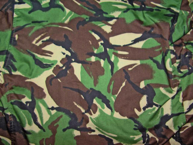 British Disruptive Pattern Material camouflage